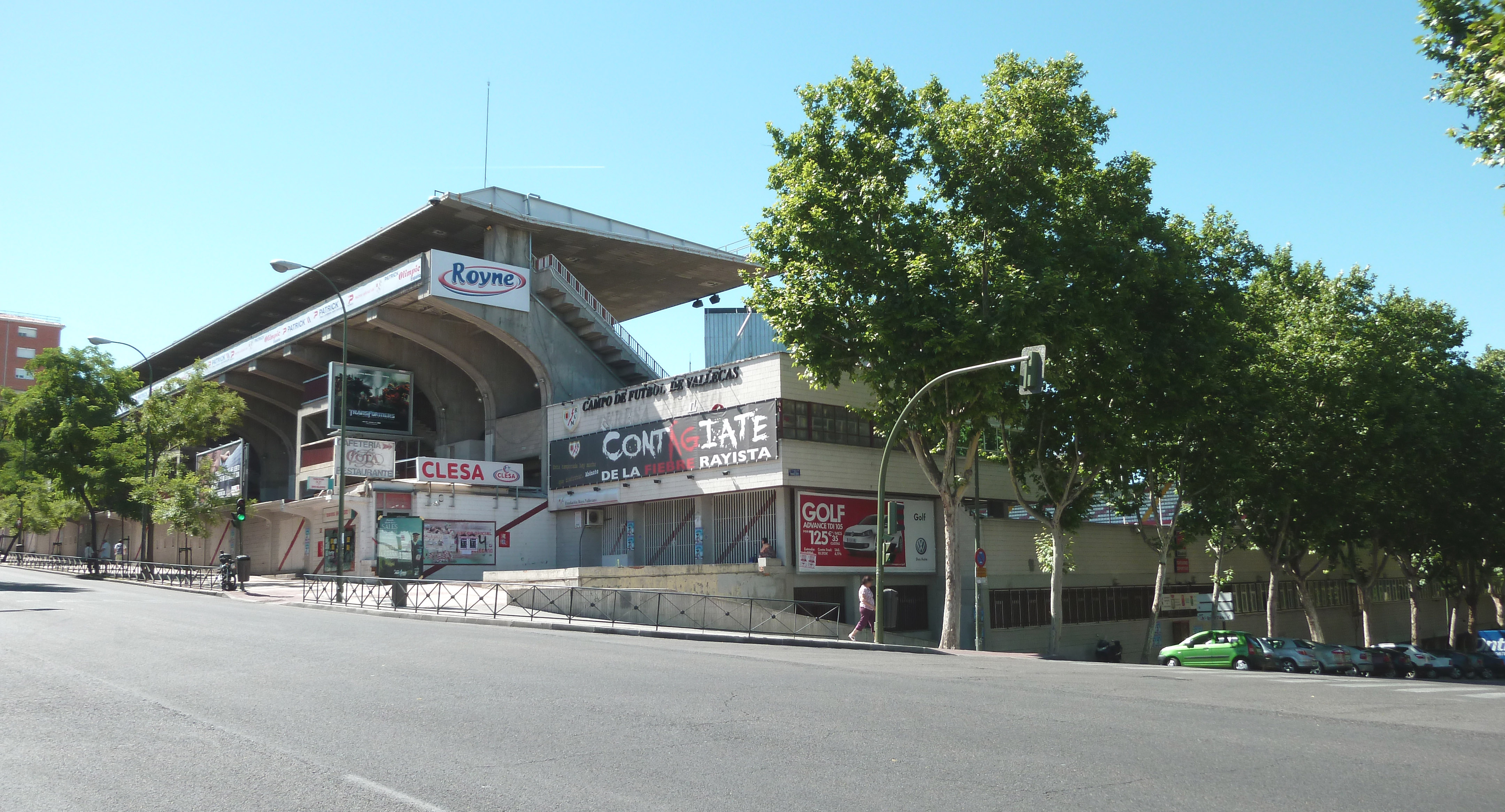 View of Teresa Rivero Stadium in Madrid (Spain).